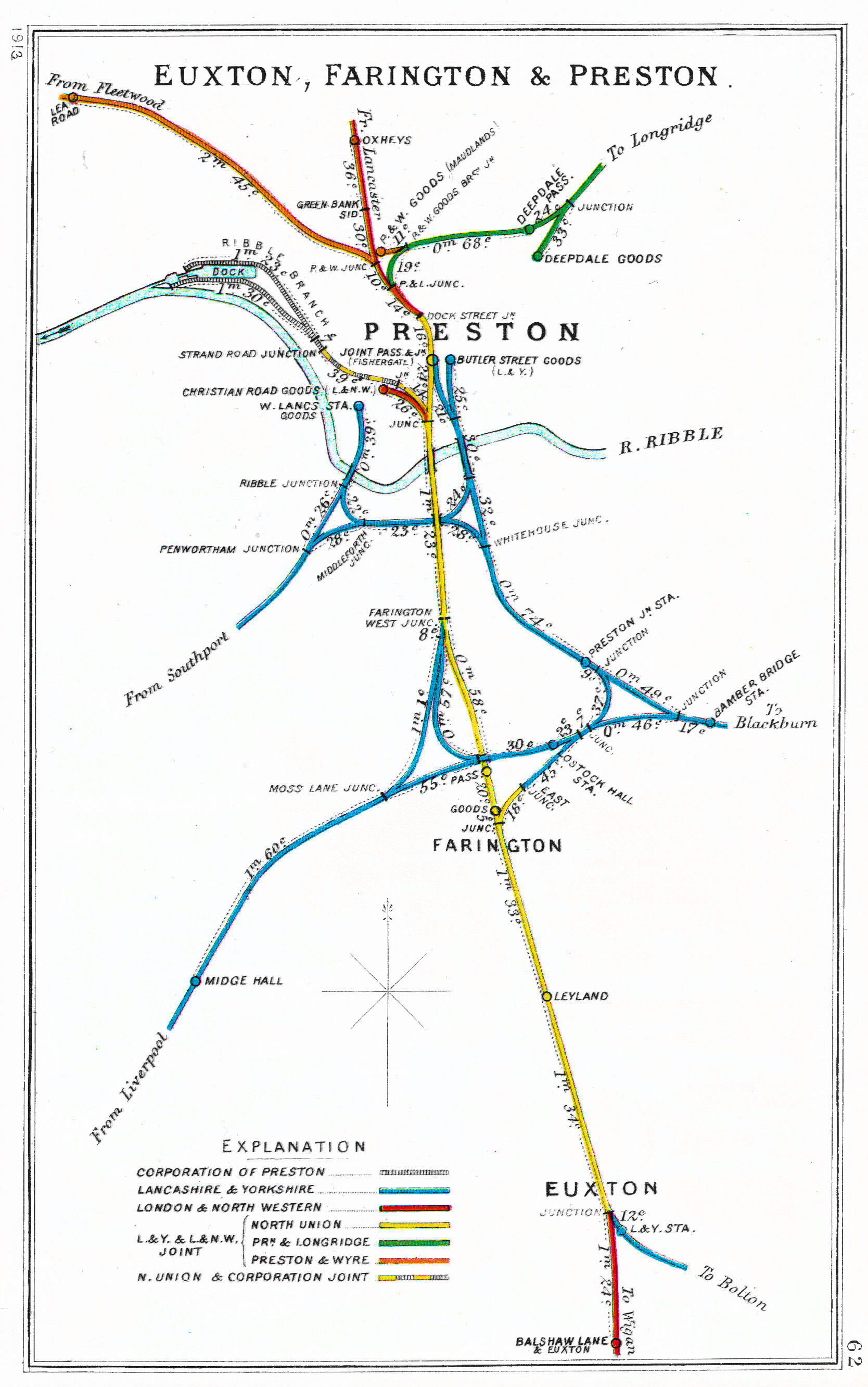 Railway Junctions in Euxton, Farington & Preston pre grouping